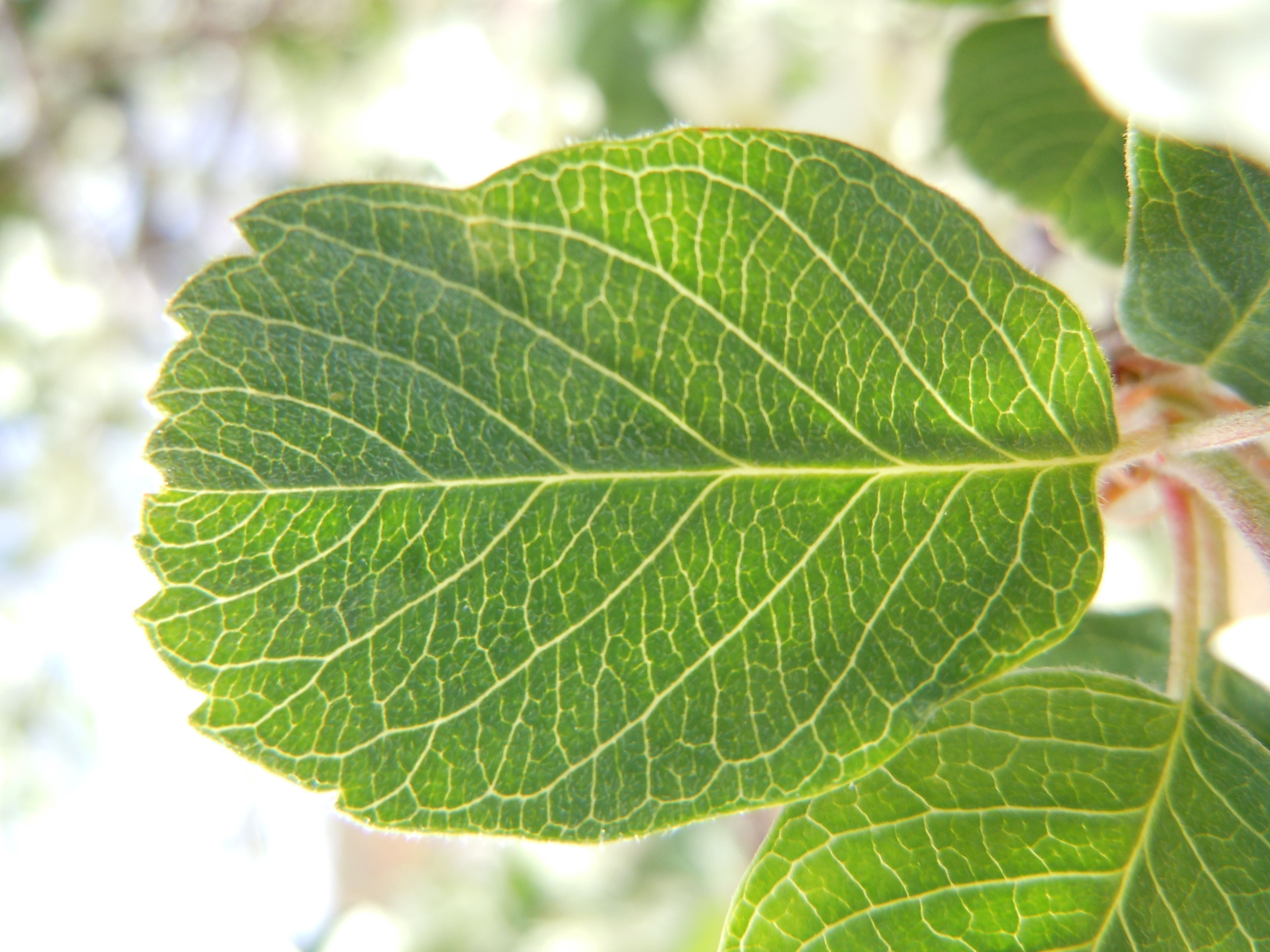 The classical Amelanchier leaf (serrate only on the distal half) is finely and shortly hairy in this species.